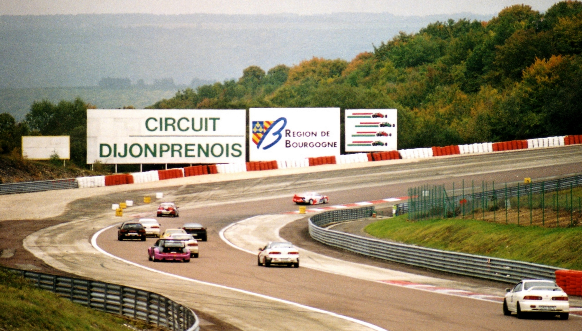 "Parabolique"-corner on current french racetrack "Circuit de Dijon-Prenois"/Warm up lap Honda trophy race autumn 2000